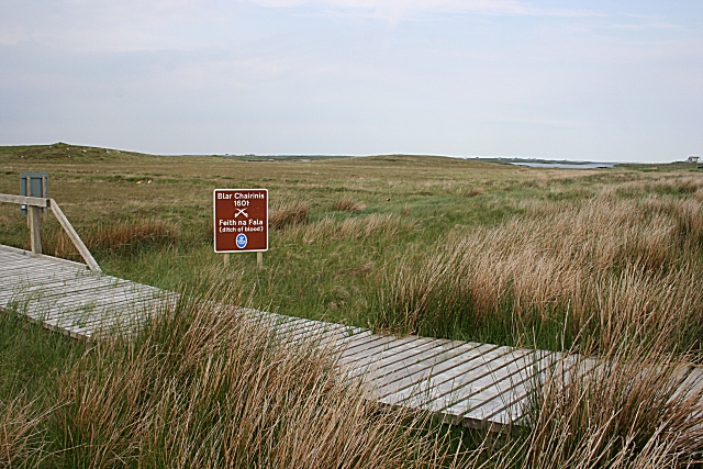 Battle of Cairninis This official VisitScotland sign commemorates the Battle of Cairinis in 1601 (part of the war of the one-eyed woman), and indicates the Ditch of Blood. This was the last battle in Scotland (and possibly anywhere in the British Isles) involving bows and arrows.